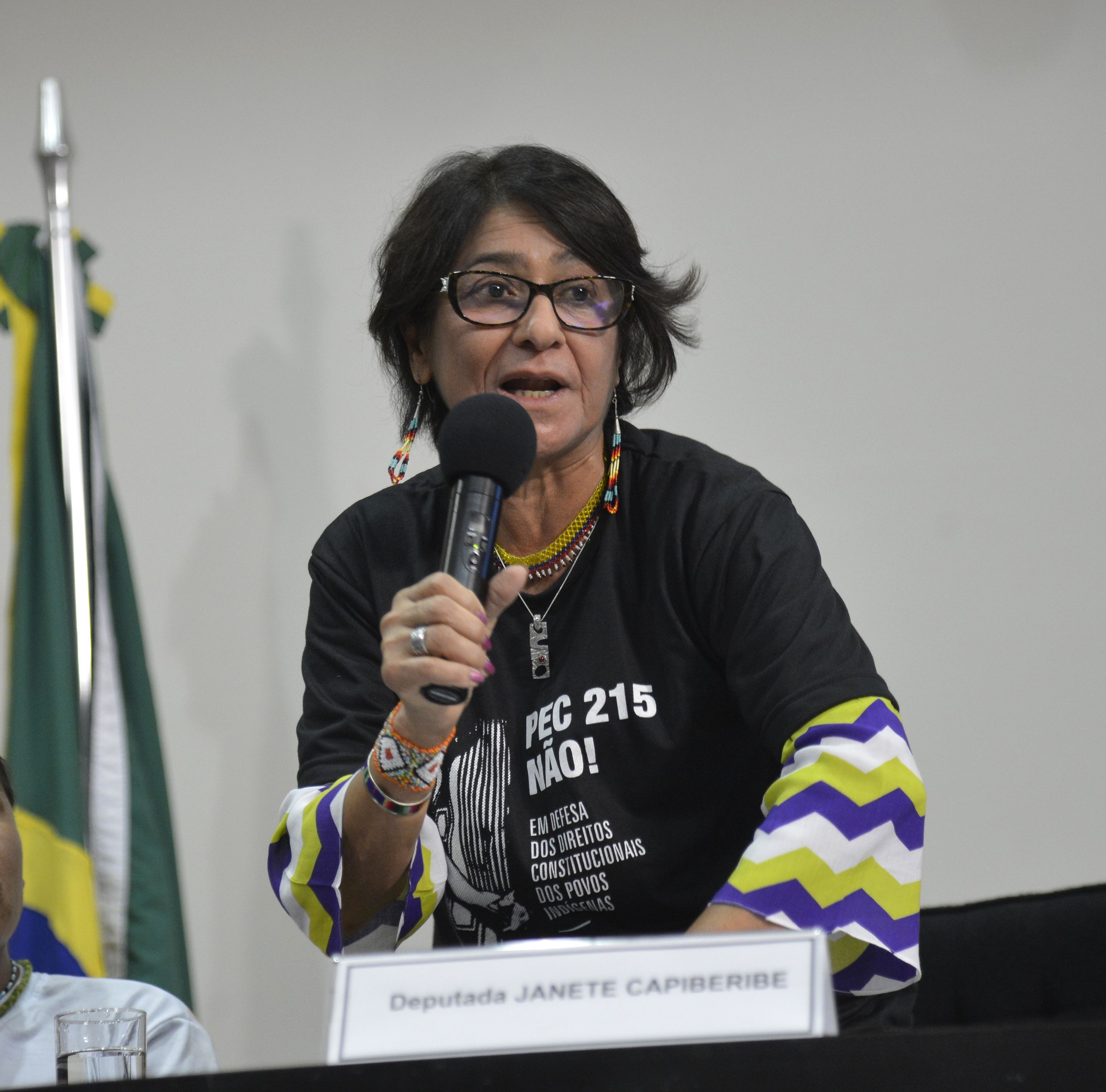 Janete Capiberibe. Photo by Wilson Dias/Agência Brasil CCBY3.0